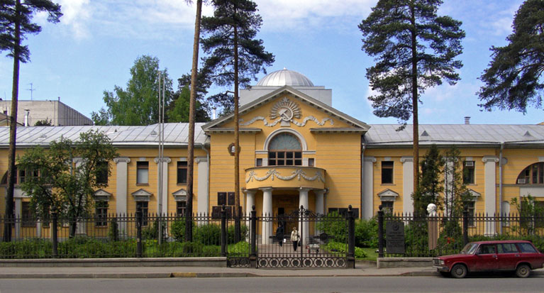 Ioffe Physico-Technical Institute. The main building. Built in 1912-1916 by architect Hermann Grimm, later partly reconstructed.